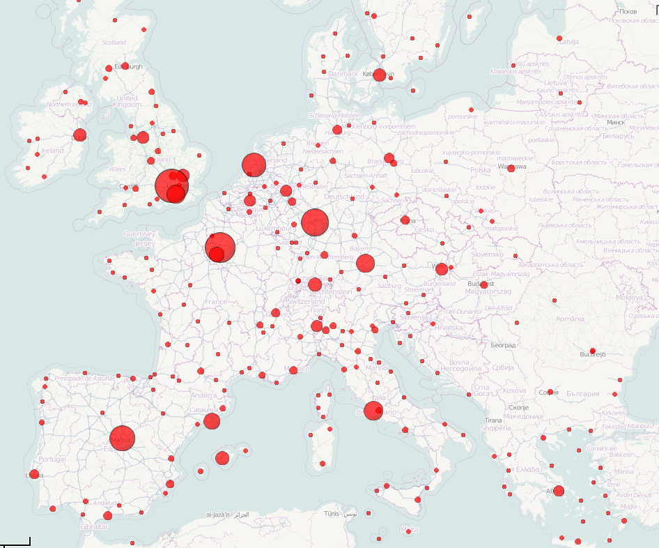 Main Western European Airports, sized (area) according to passenger numbers in 2009. Only airports with more than 100 000 passengers are shown. Data Eurostat, background OpenStreetMap.